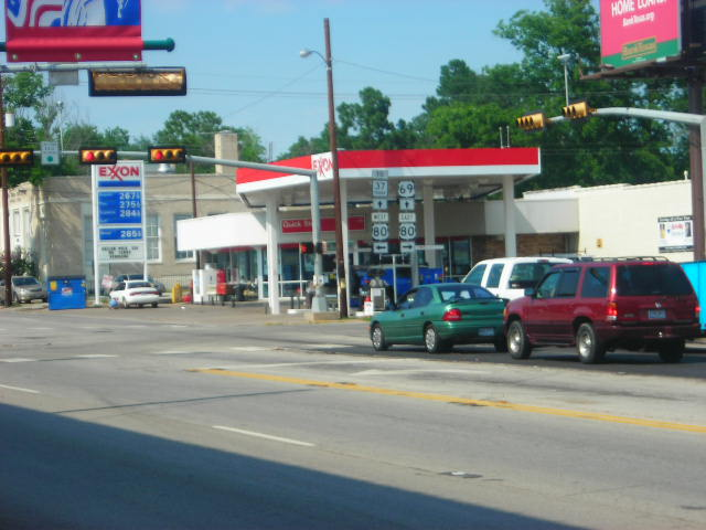 The junction of US Highways 69 and 80 in Mineola, Tx. Photo by Danny Burton 06/05/06.